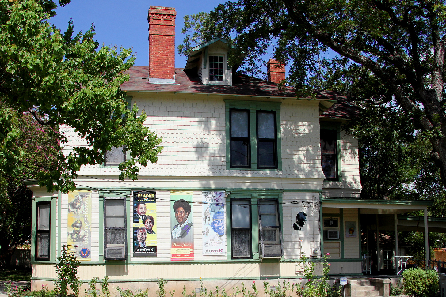 The Southgate-Lewis House located at 1501 E. 12th St, Austin, Texas, United States. The house was listed on the National Register of Historic Places on September 17, 1985 and designated a Recorded Texas Historic Landmark in 1988. THe house is cuurently home of the W.H. Passon Historical Society.